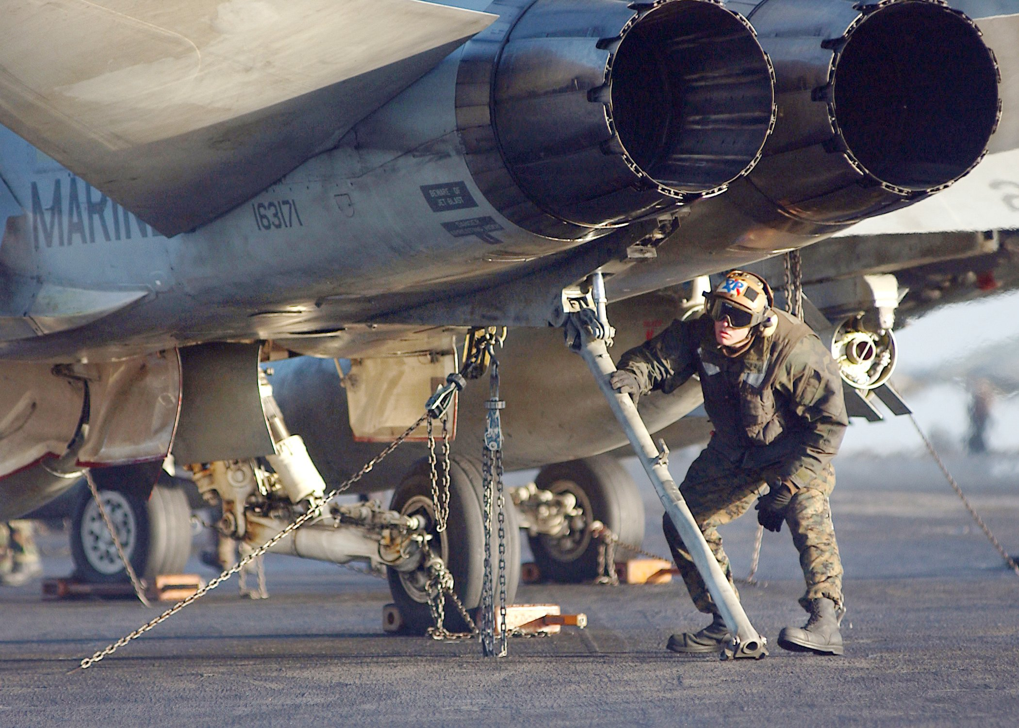 Persian Gulf - A Marine assigned to the "Silver Eagles" of Marine Strike Fighter Attack Squadron One One Five (VMFA-115) conducts a preflight check on the tailhook on one of the squadron’s F/A-18A+ Hornets prior to the start of flight operations on the flight deck of the Nimitz-class aircraft carrier USS Harry S. Truman (CVN 75). Carrier Air Wing Three (CVW-3) is embarked aboard Harry S. Truman and is providing close air support and conducting intelligence, surveillance and reconnaissance missions over Iraq. The Truman Carrier Strike Group and CVW-3 are on a regularly scheduled deployment in support of the "Global War on Terrorism". Airplane: Serial: 163171 Code: VE-210 Type: F/A-18A CN: 611/A517 Unit: VMFA-115 (source: [1])